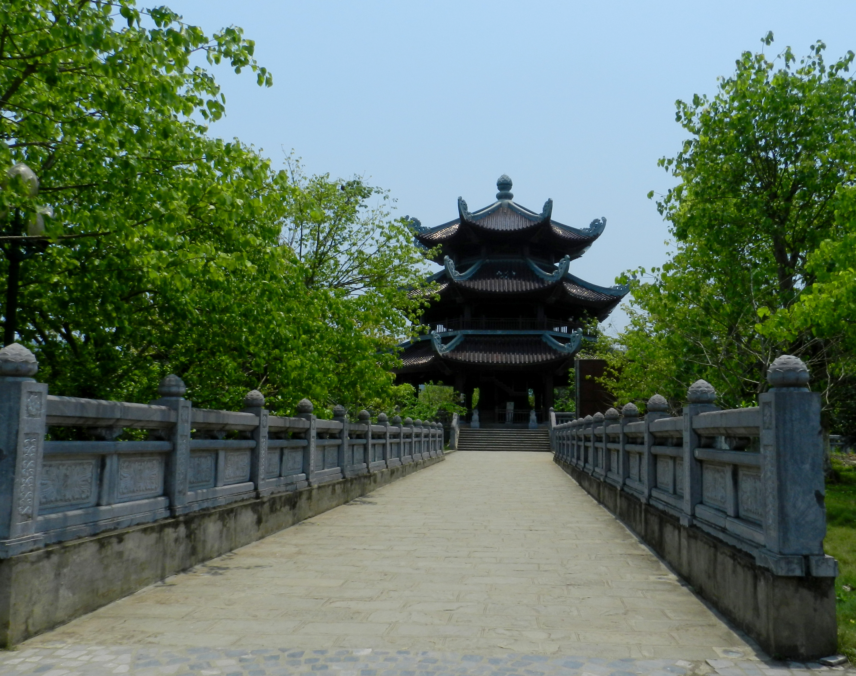 Bell Tower. Bai Dinh Pagoda, Vietnam